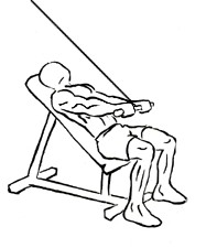 an exercise of upper back